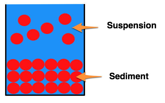 Particles undergoing sedementation